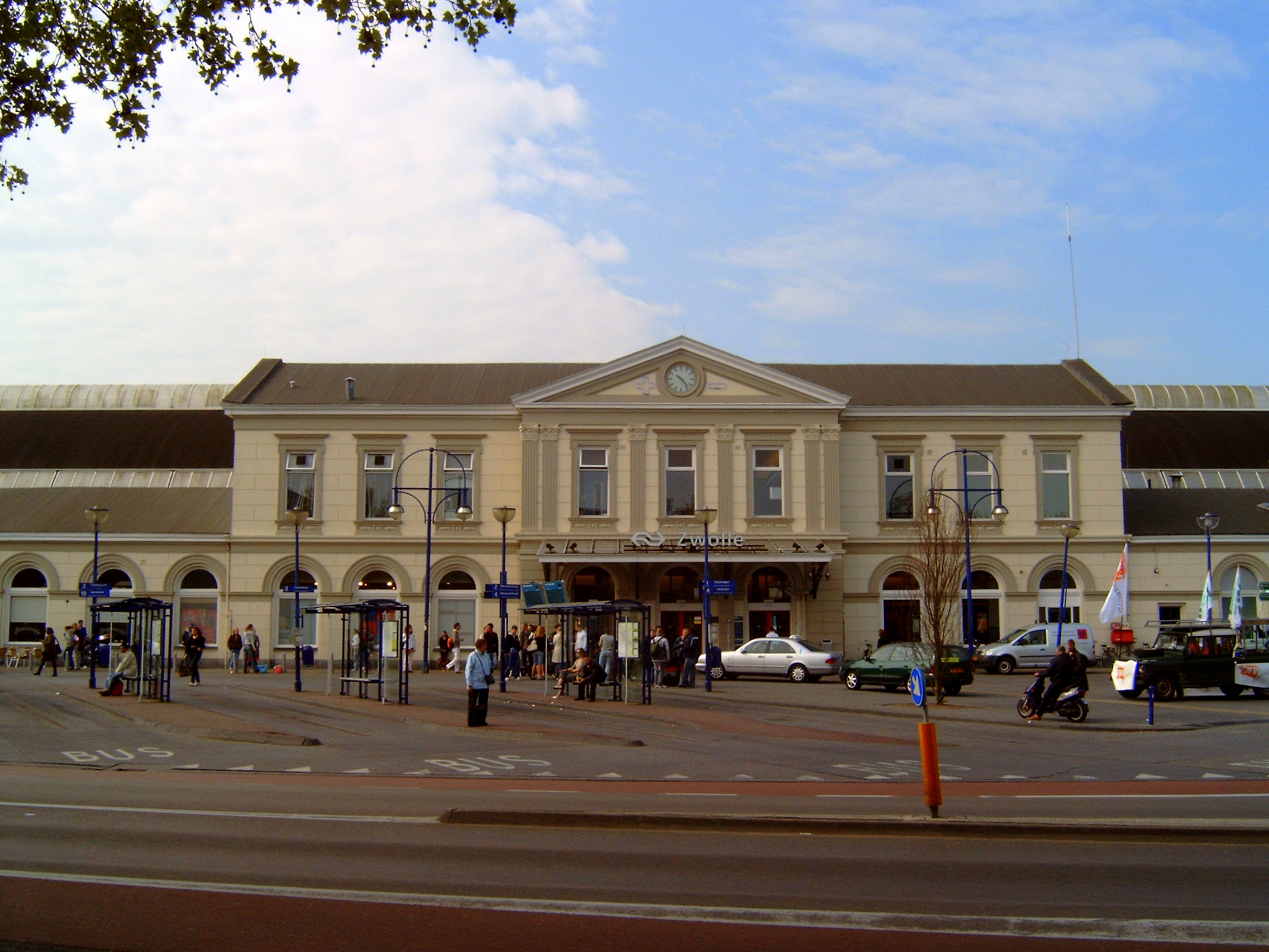 Zwolle, NSstation